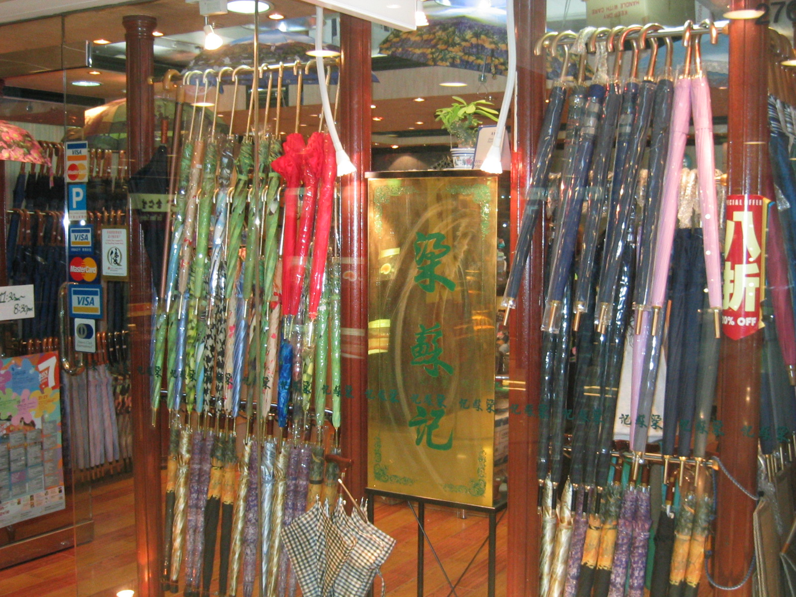 The former umbrella shop of Leung So Kee in New Town Plaza, Sha Tin, New Territories